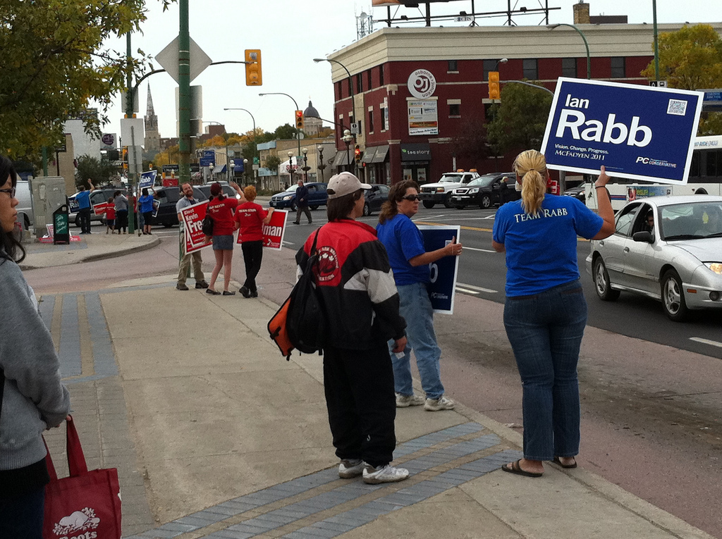 Political burmashaving on Osborne Street in Winnipeg, October 3, 2011.